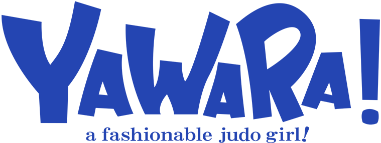 Logo of Yawara! (ヤワラ).